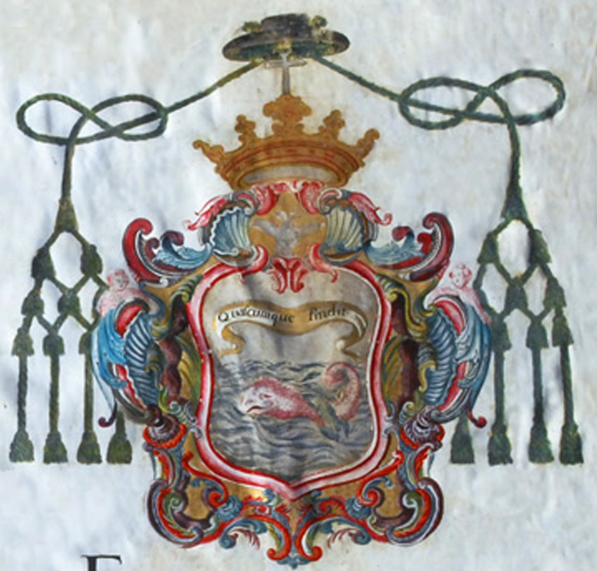 Coat of arms of Miguel de Távora, Archbishop of Évora, 1745